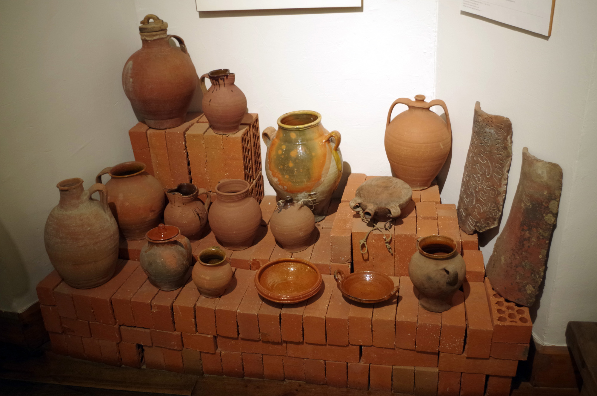 Pottery, tiles and bricks in Ávila Museum (Casa de los Deanes building) (Ávila, Spain).